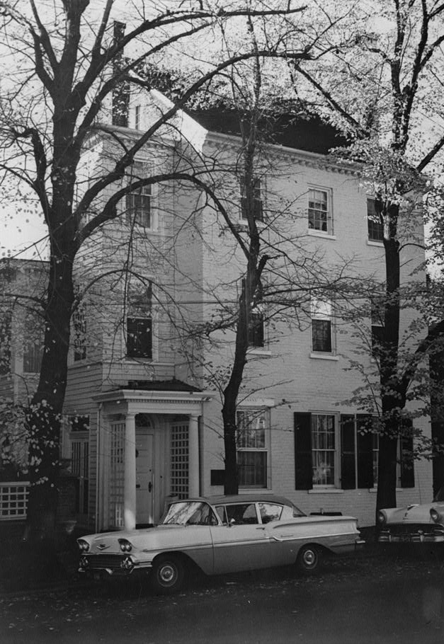 Dick-Janney House, 408 Duke Street, Alexandria, Independent City, VA